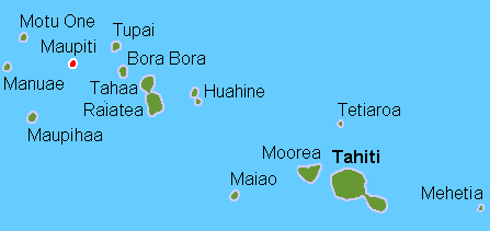 Location of Maupiti within Society Islands, French Polynesia